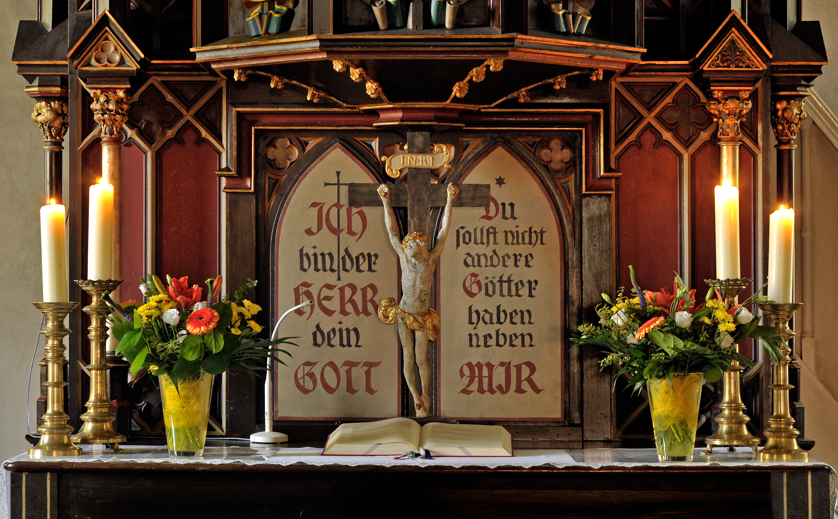 Altar in the St. Dionysiuskirche of Adensen in Nordstemmen, district Hildesheim, Lower Saxony, Germany. The Altar is made by the architect Wellenkamp in the year 1852.